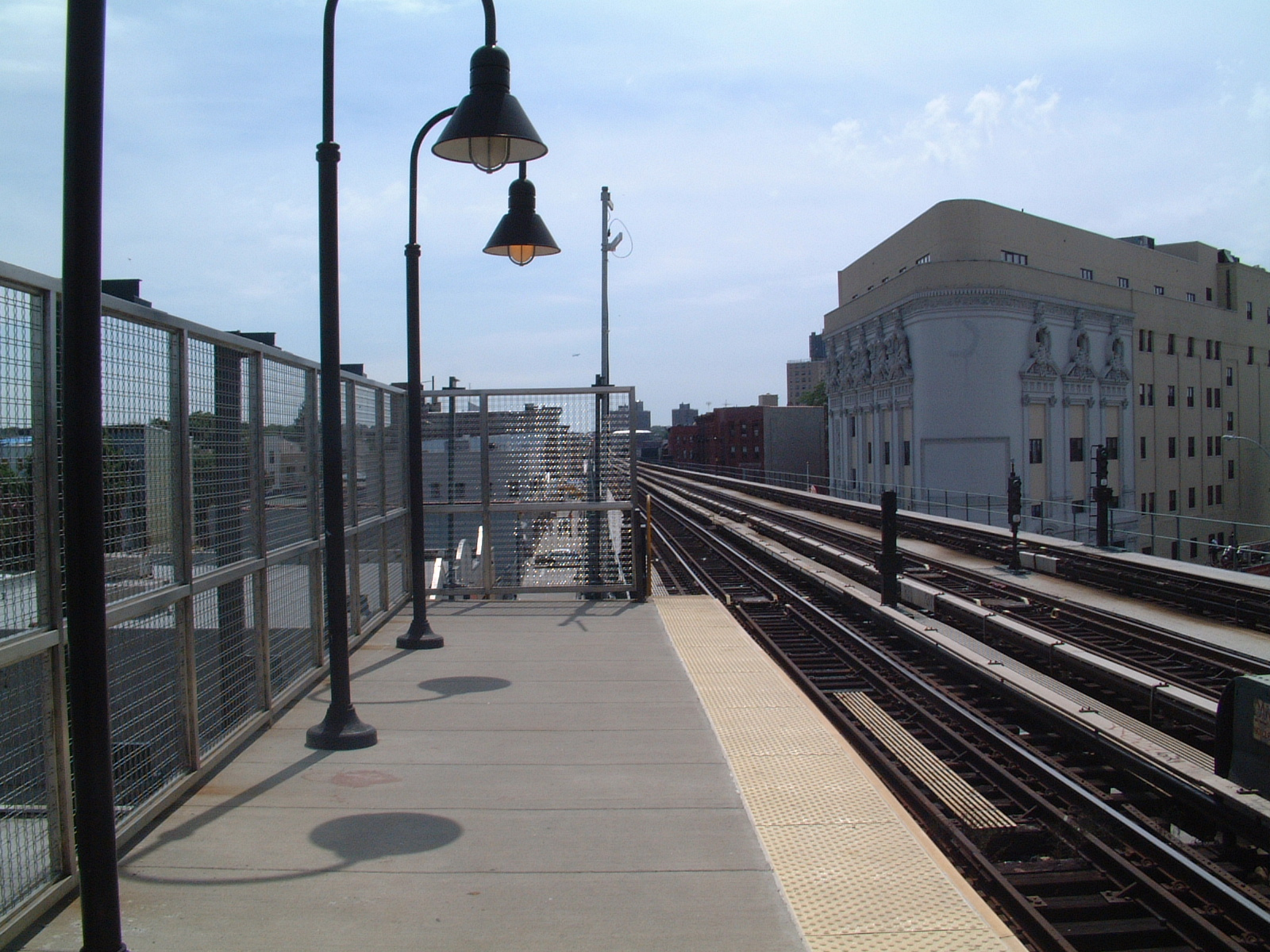 This is looking away from Manhattan.. this is the end of our platform, with its pretty lights.